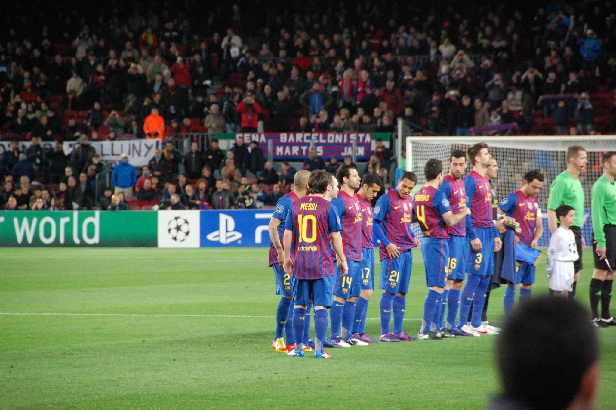 FC Barcelona - Bayer 04 Leverkusen, 1/8 Final UEFA Champions League, Season 2011/2012